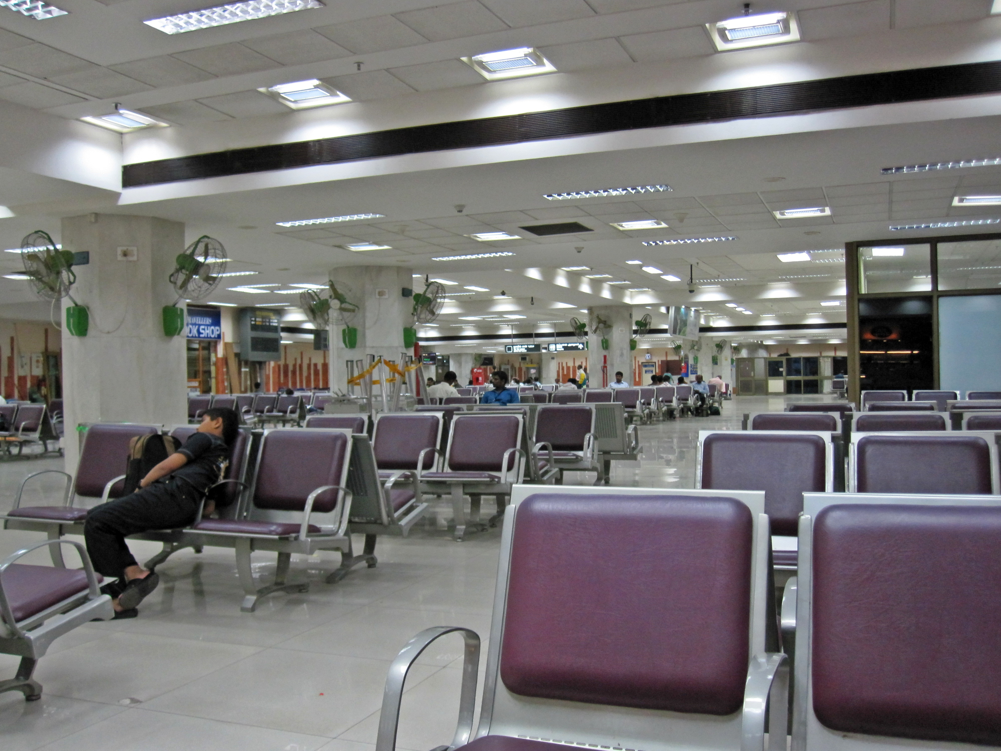 Chennai airport, international departure lounge